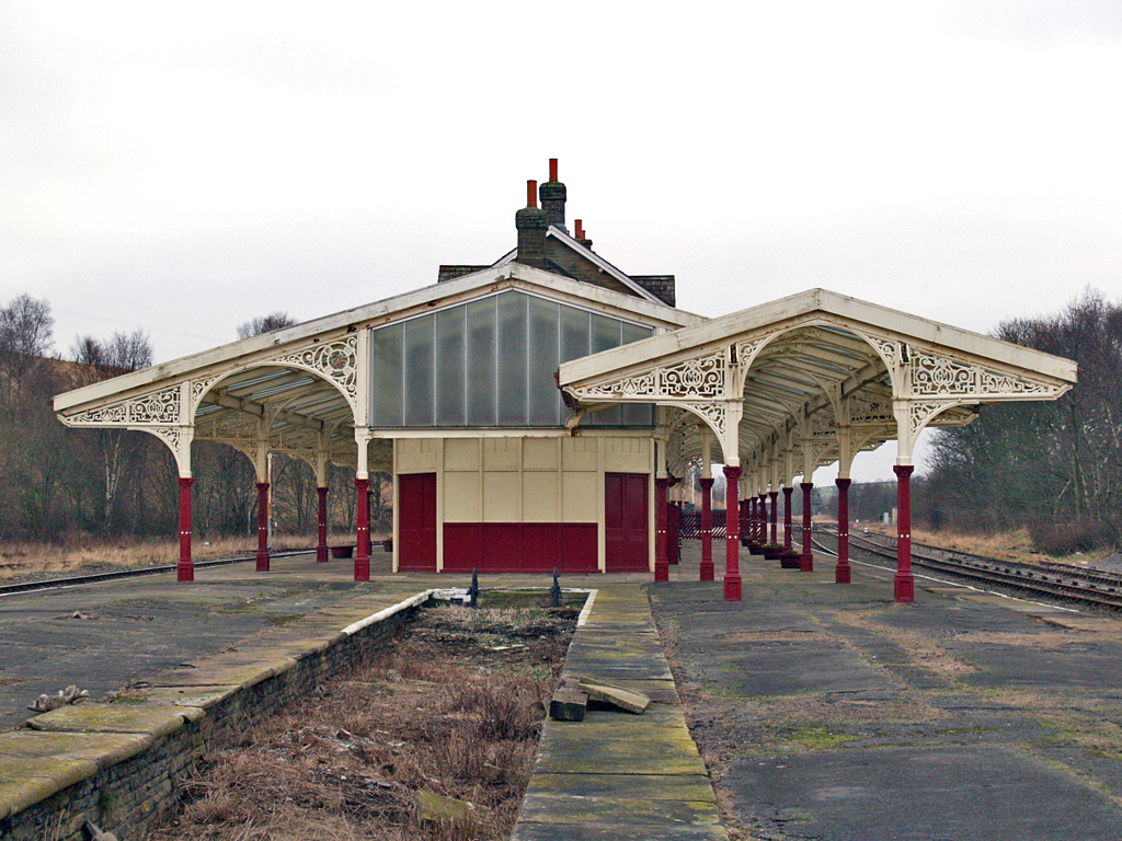 Hellifield station viewed from the North. Tuesday 18th December 2007